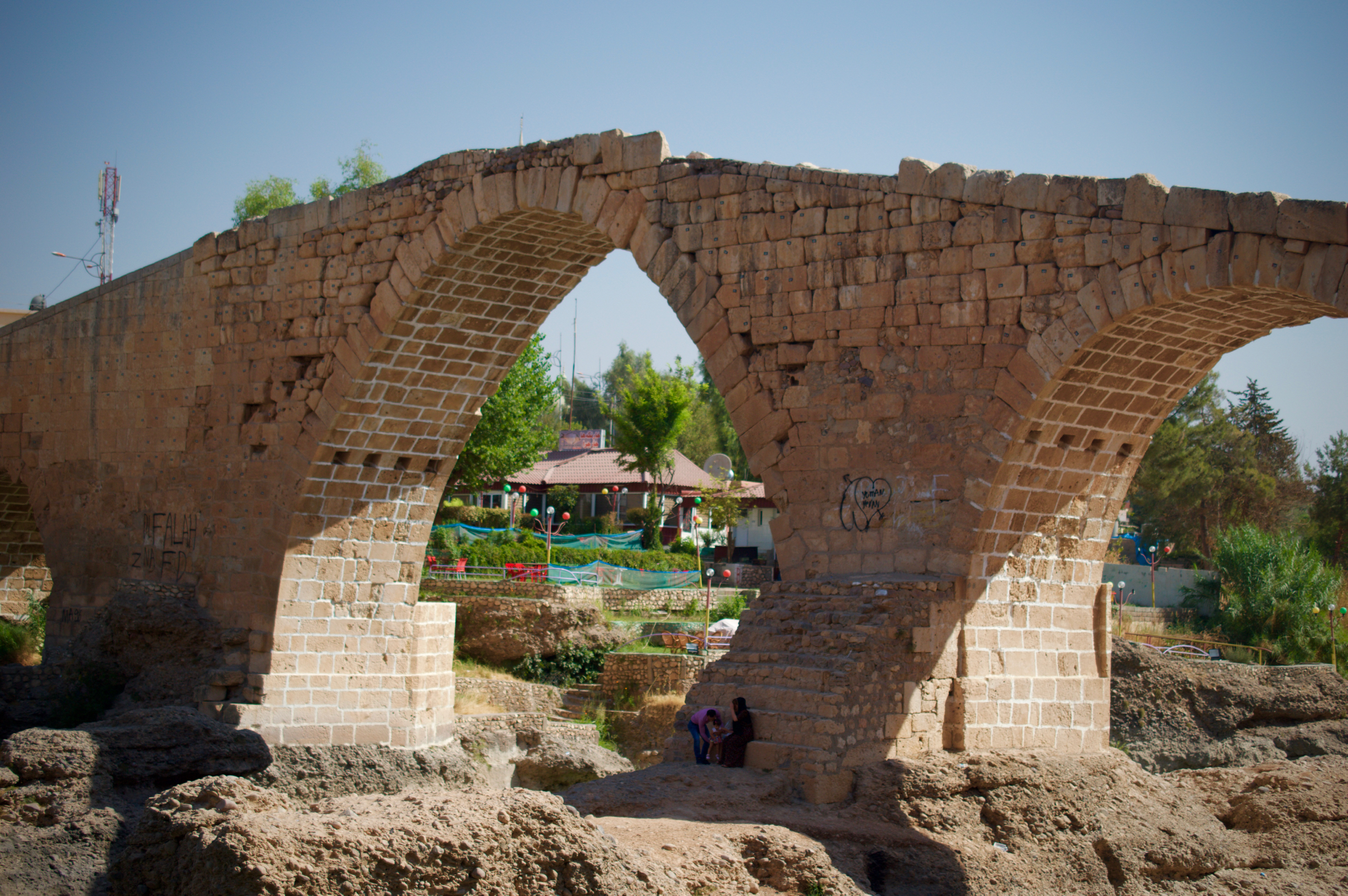 Pira Delal Bridge in Zakho, Duhok Governorate, Kurdistan Region